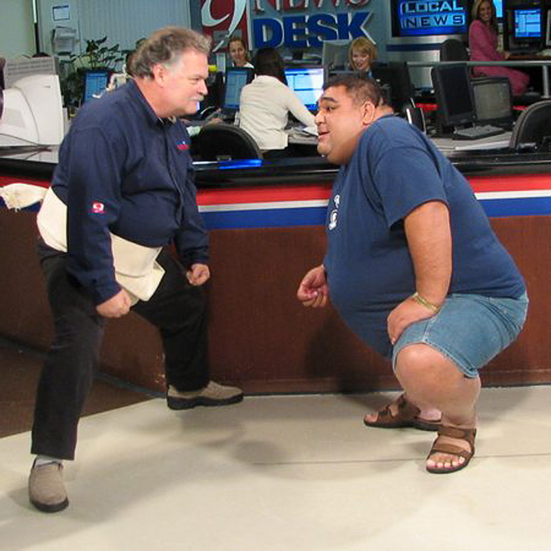 Photo of sumo wrestler Musashimaru Kōyō demonstrating basic sumo moves and positions with Phil Konstantin at KUSI-TV in San Diego, California in 2005.